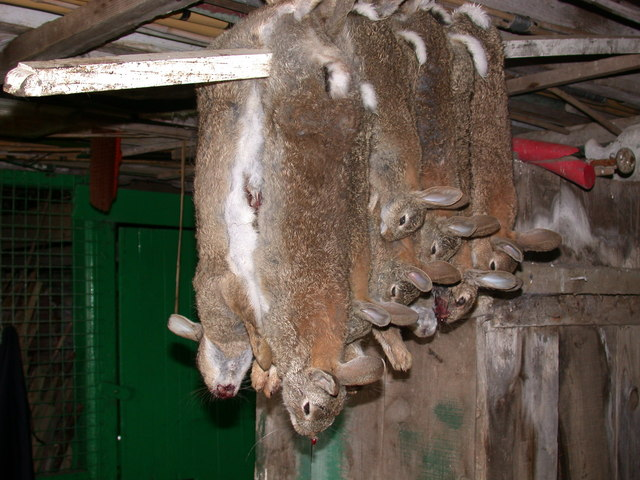 Canna bunnies. In a barn on Canna.